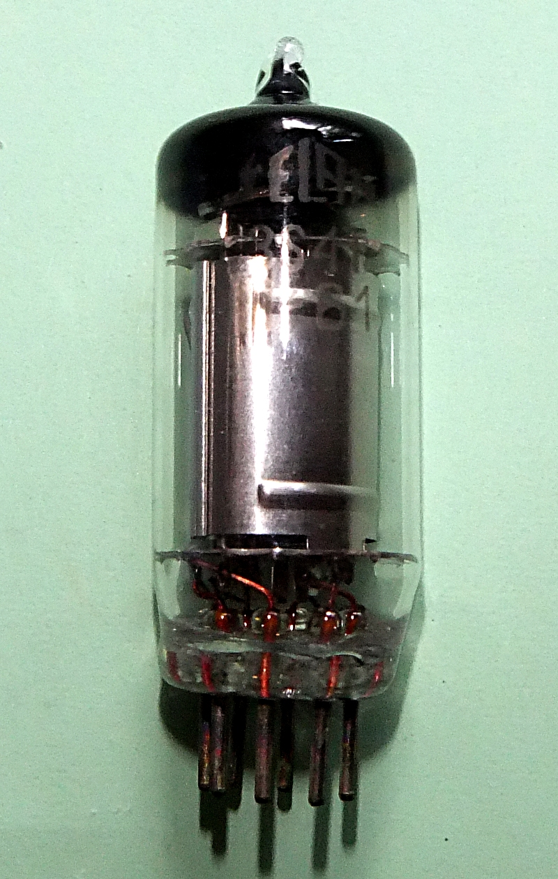 Battery pentode 3S4T